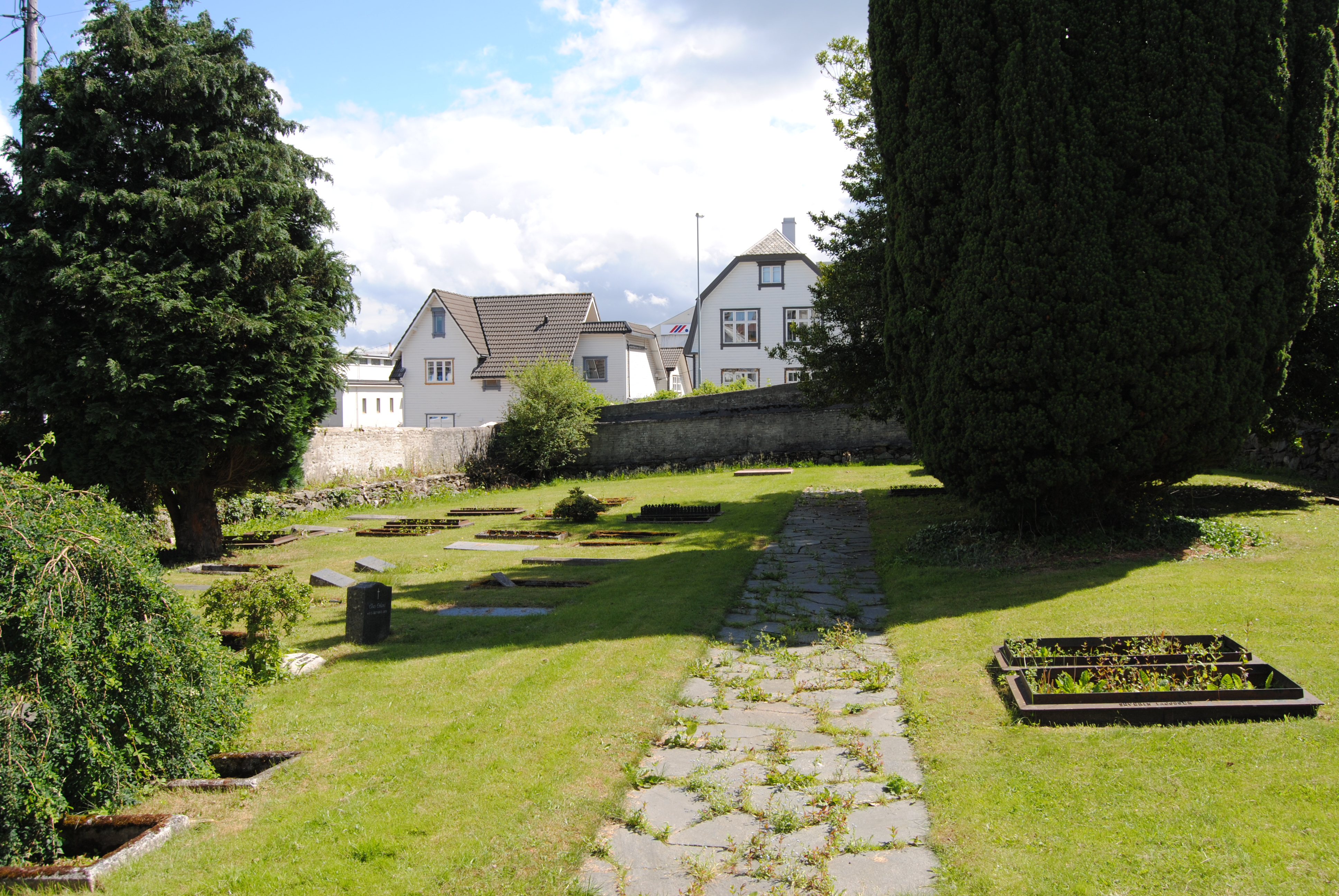 The new quaker cemetary in Stavanger, Norway